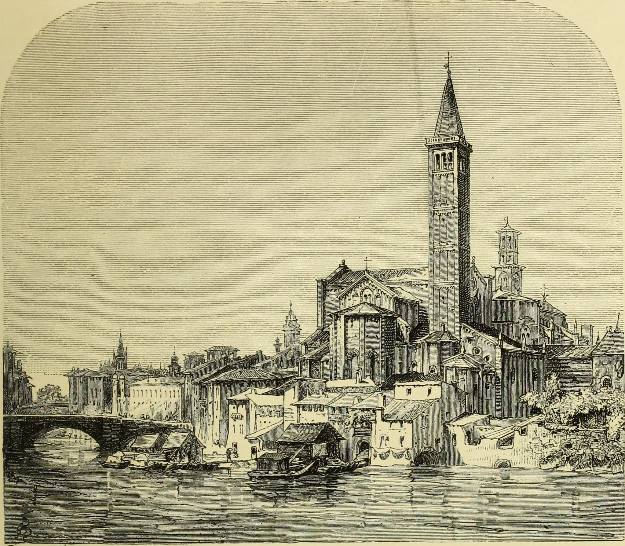 Title: Italy from the Alps to Mount Etna Year: 1877 (1870s) Authors: Stieler, Karl, 1842-1885 Cavagna Sangiuliani di Gualdana, Antonio, conte, 1843-1913, former owner. IU-R Paulus, Eduard, 1837-1907 Kaden, Woldemar, 1838-1907 Trollope, Frances Eleanor, d. 1913 Trollope, Thomas Adolphus, 1810-1892 Subjects: Publisher: London : Chapman and Hall Text Appearing Before Image: OF THE Text Appearing After Image: SANTA ANASTASIA, VERONA. VERONA. ROM Santa Lucia, where the railways into Verona meet, the eye can alreadyembrace the enchanting prospect of the city. In the foreground stand thethreatening fortifications with their sharp strong angles surmounted by darkcypresses between which you catch glimpses of little white villas scattered onthe heights. Amid the rattle of the train and the rush of the Adige we are carriedswiftly nearer to the goal ; and our hearts beat high with expectation. For, though theItalian landscape that we have hitherto seen, captivated us, Verona is the first real Italiancity that we have greeted. And what memories awake as we draw near to her gates,—those gates behind which stands one of the finest monuments of antiquity,—behindwhich Dietrich von Bern and Alboin intrenched themselves,—where Dante lived an exile,and where Romeo grew pale beside Juliets coffin. But soon the dreamy past fades away, for the train rushes with a shrill whistle intothe station at Porta